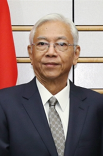 President U Htin Kyaw and wife arrive in Japan